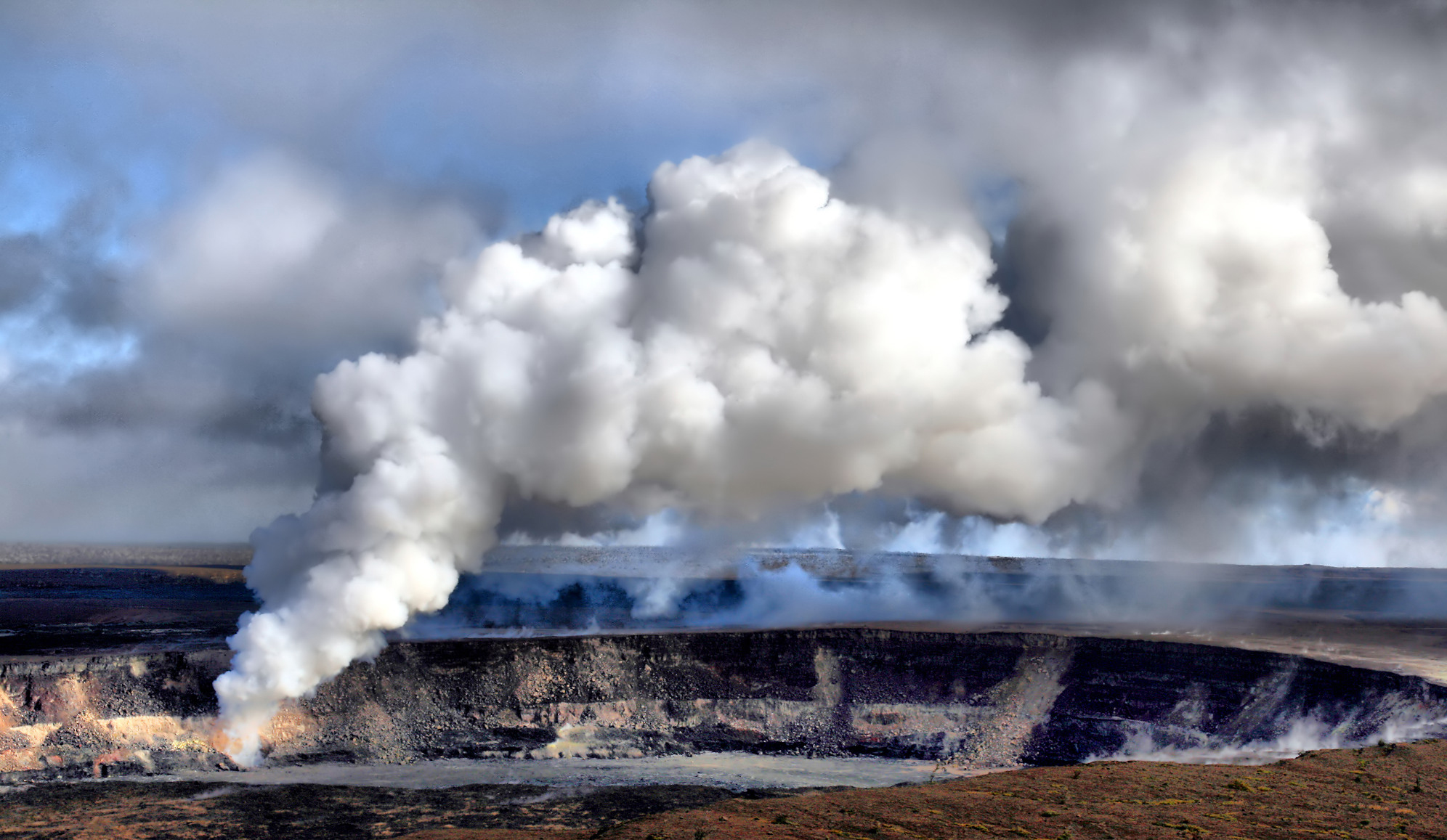 sulfur dioxide emissions from the Halema`uma`u vent, Kīlauea.